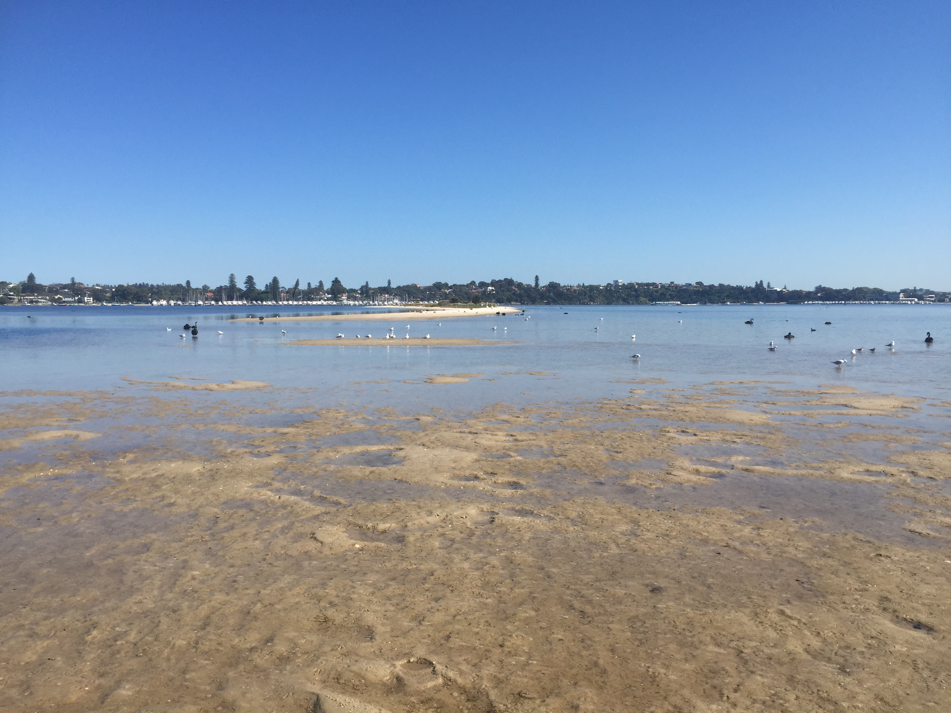 Birdlife including seagulls and black swans on and around sandbar at Point Walter, Australia.